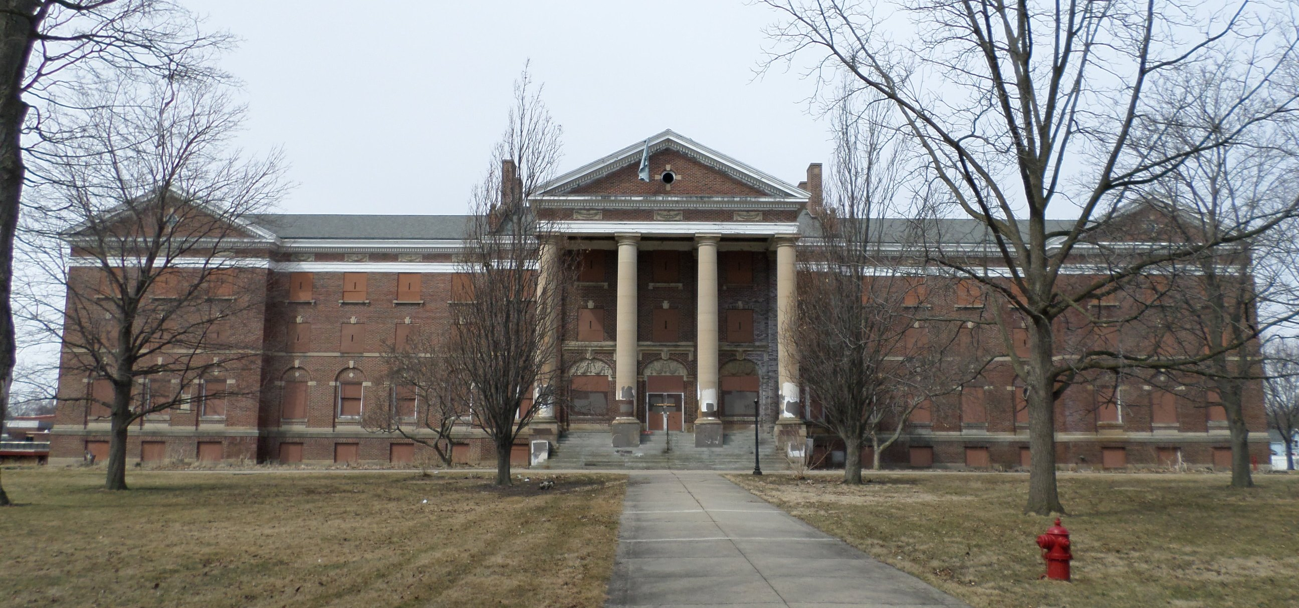 The administration building on the campus of the former Michigan School for the Blind, located at 715 W Willow St, Lansing, MI.